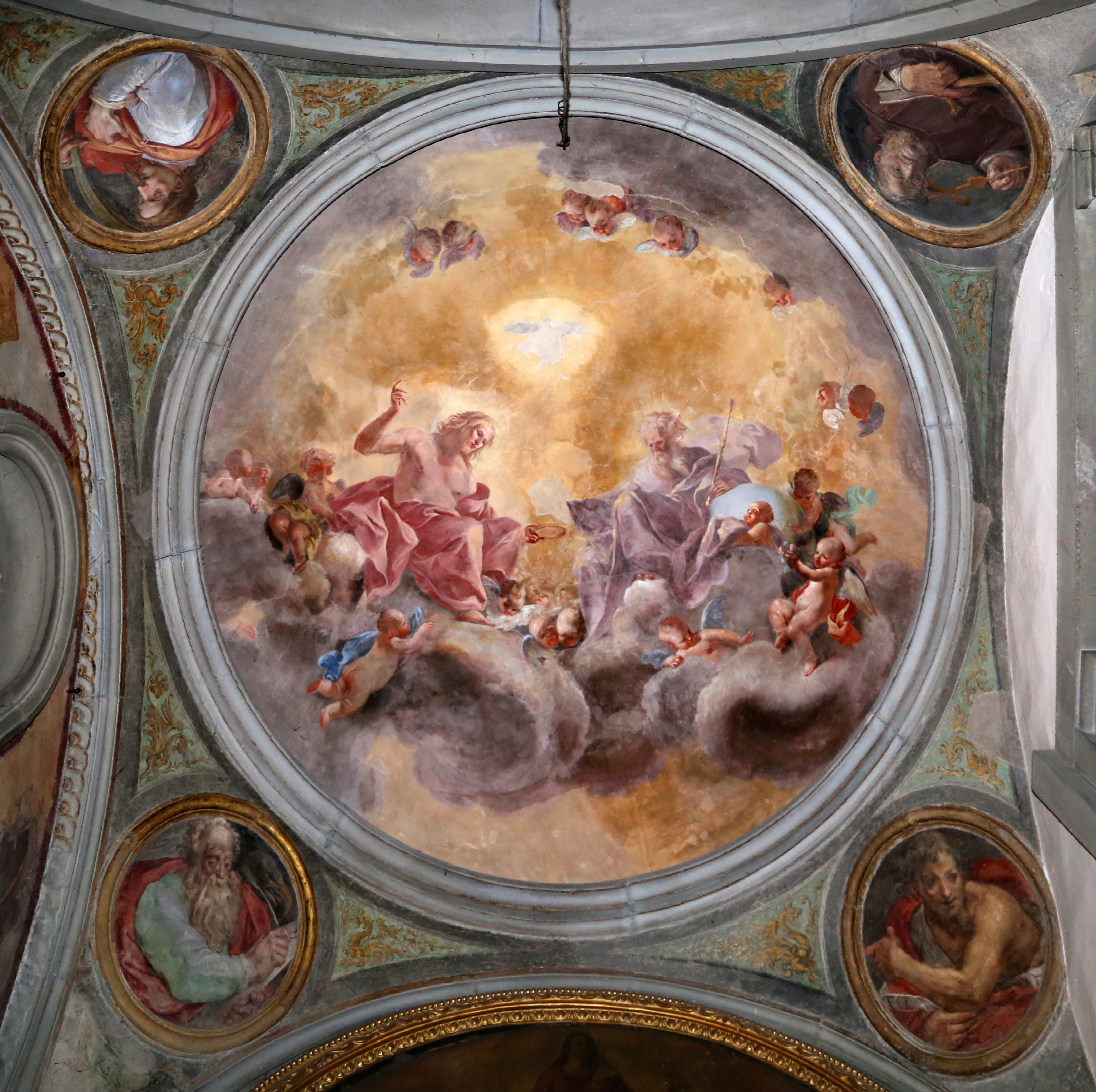 Santa Felicita (Florence) - Interior